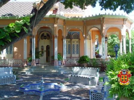 This is a picture of the Casa Román in Cartagena de Indias, Colombia.